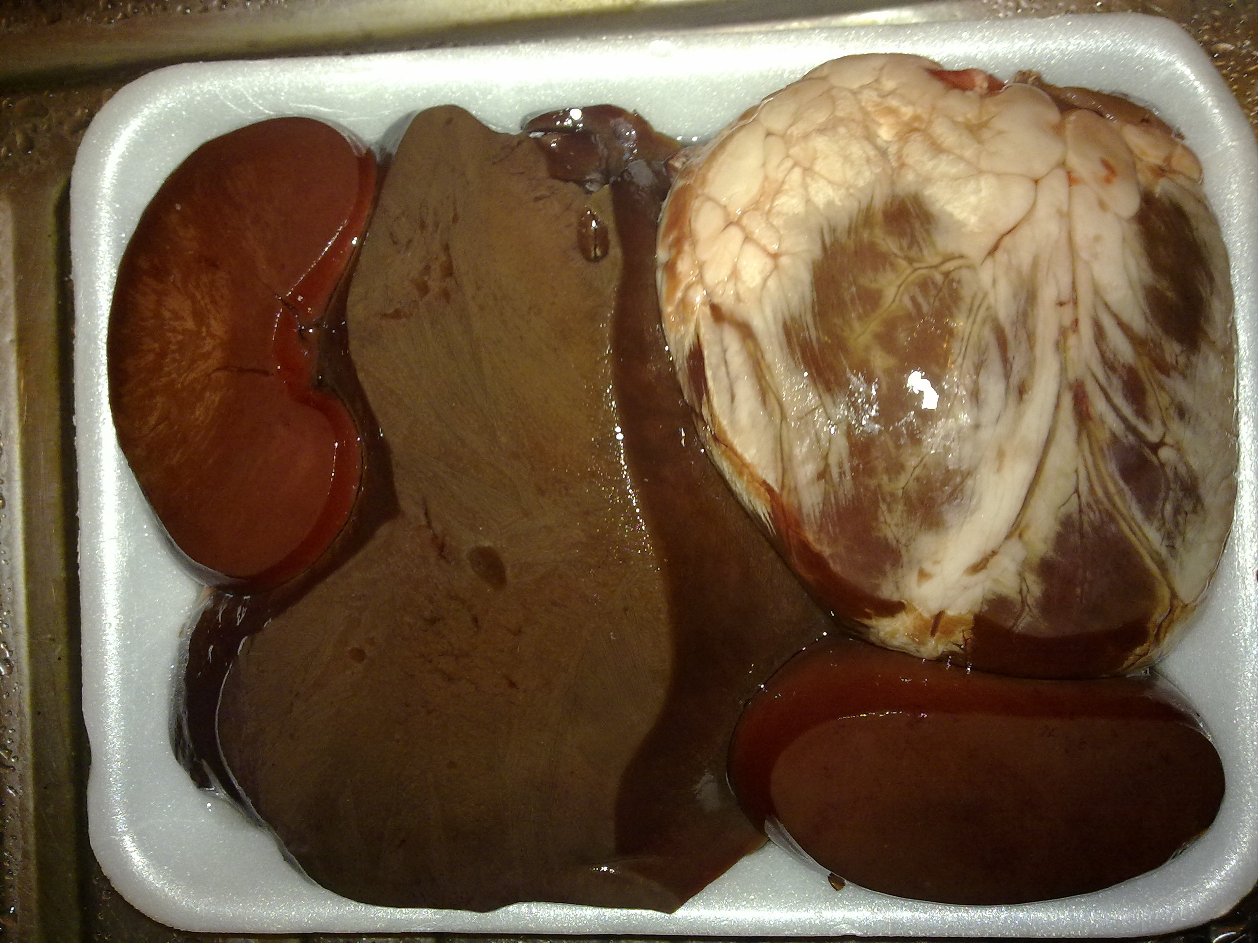 clicks by irvin calicut sheeps anatomy . liver, 2 kidneys , and heart.